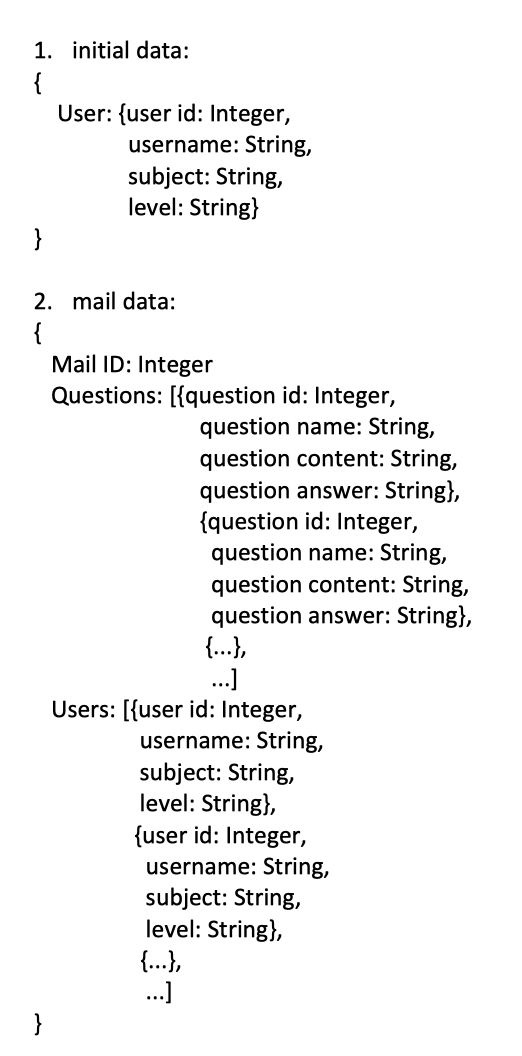 JSON format of the dataflow design